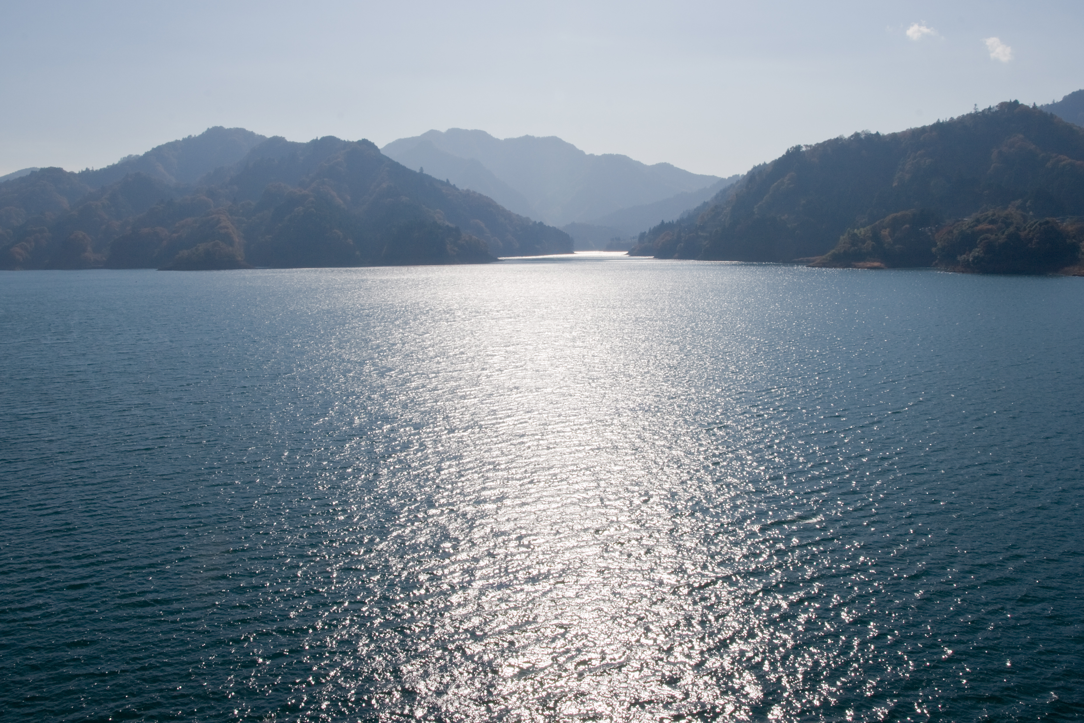 Lake Miyagase (宮ヶ瀬湖 Miyagase-ko), Kanagawa prefecture, Japan.